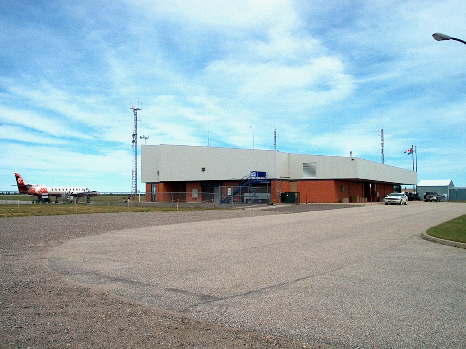 Dryden Regional Airport.